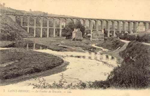 The Souzain Viaduct is a railway bridge between the towns of Saint-Brieuc and Plerin, in Brittany, built in 1904 by Harel de La Noë, with a central junction. From Plérin, one branch heads towards "Sous la tour" [lit. "Under the tower"], on the Saint-Brieuc line to the lighthouse stop of Phare du Légué. The second branch served the line from Saint-Brieuc to Plouha. The viaduct has been a listed Historic Monument since 21st December 1993.